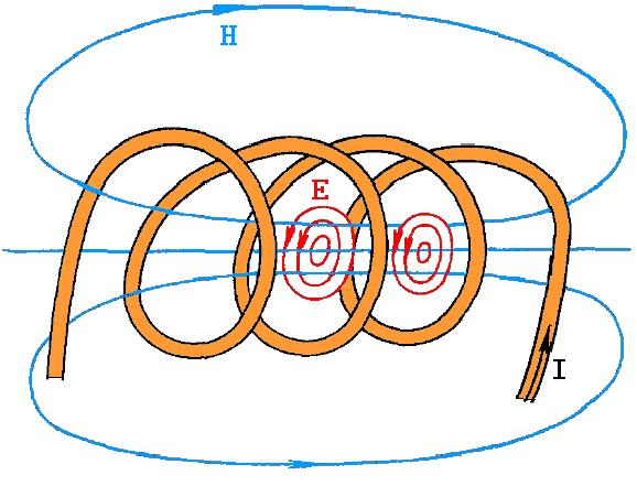 Fields in solenoid